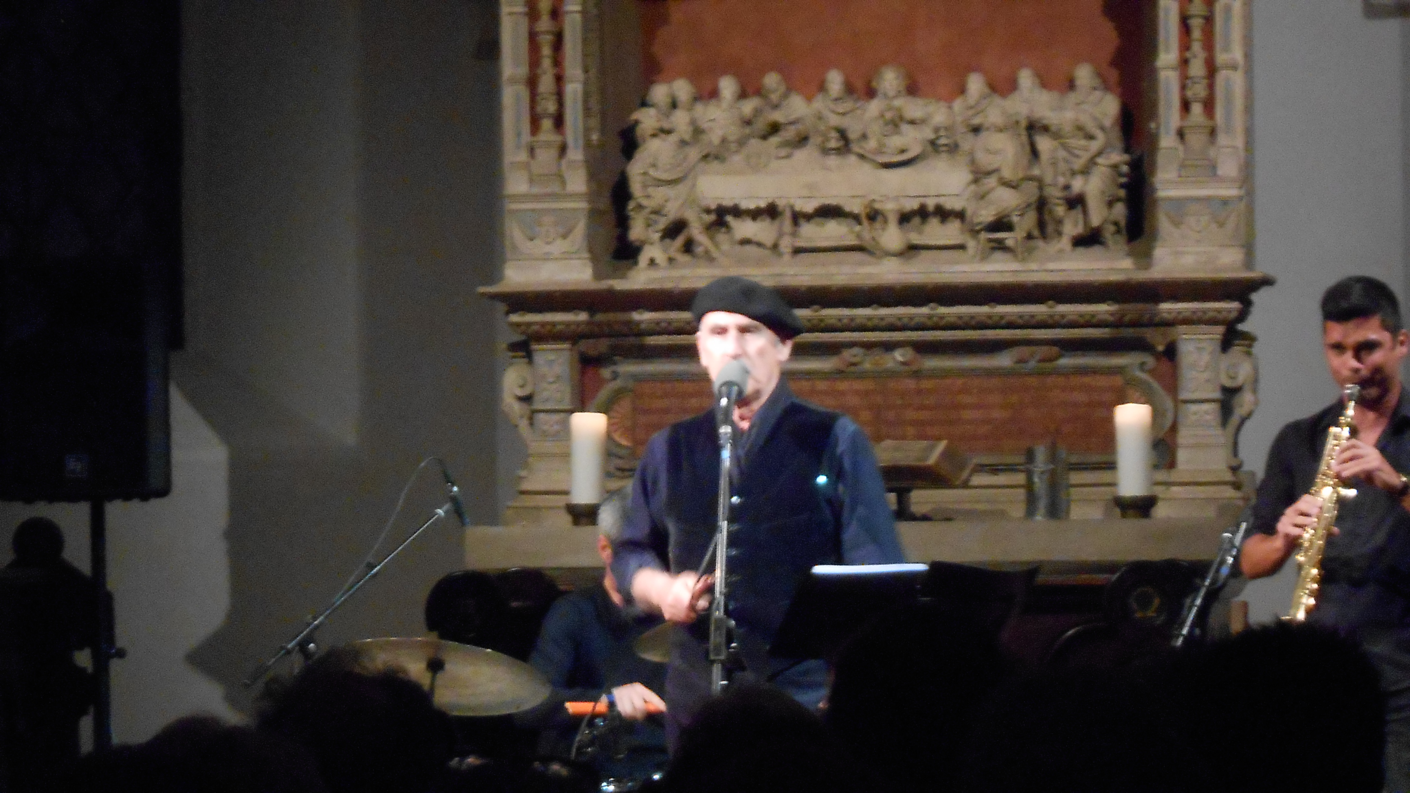 Portuguese singer Vitorino Salomé in the Bleckkirche church in Gelsenkirchen, Germany, 21th march of 2014